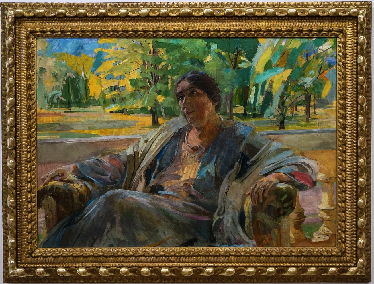 Franz Wiegele (1887 - 1947) Portrait of oil on canvas 1929.